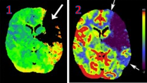 edit CT perfusion with flow and volume maps in cerebral infarction.png. For context, see Wikipedia:Imaging in stroke.